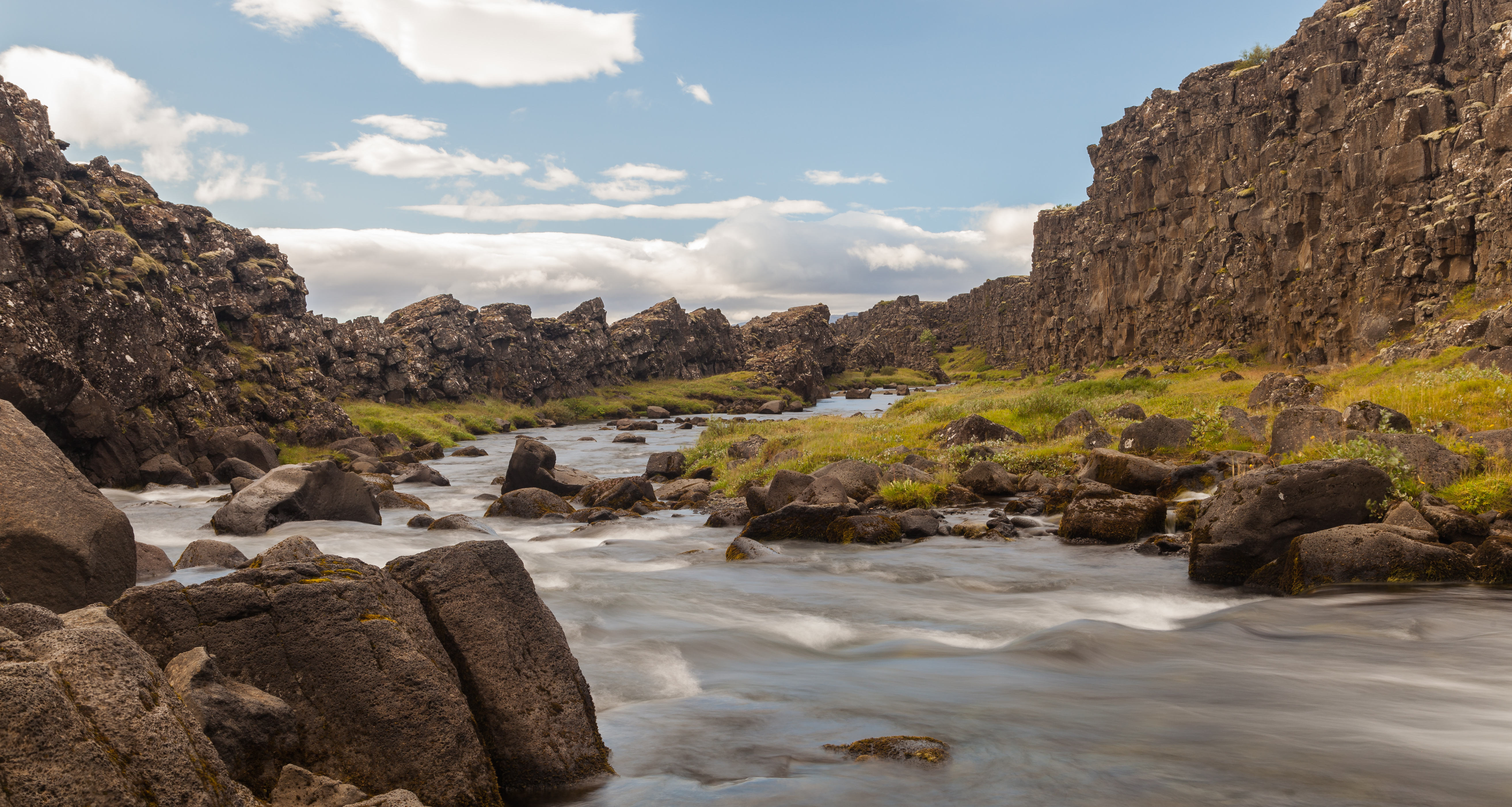 Öxarárfoss, Suðurland, Iceland